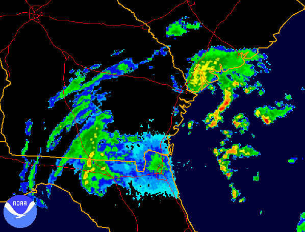 This is a radar image of Tropical Storm Gordon, 2000, from NWS Jacksonville NEXRAD radar and was made using JAVA NEXRAD tool.